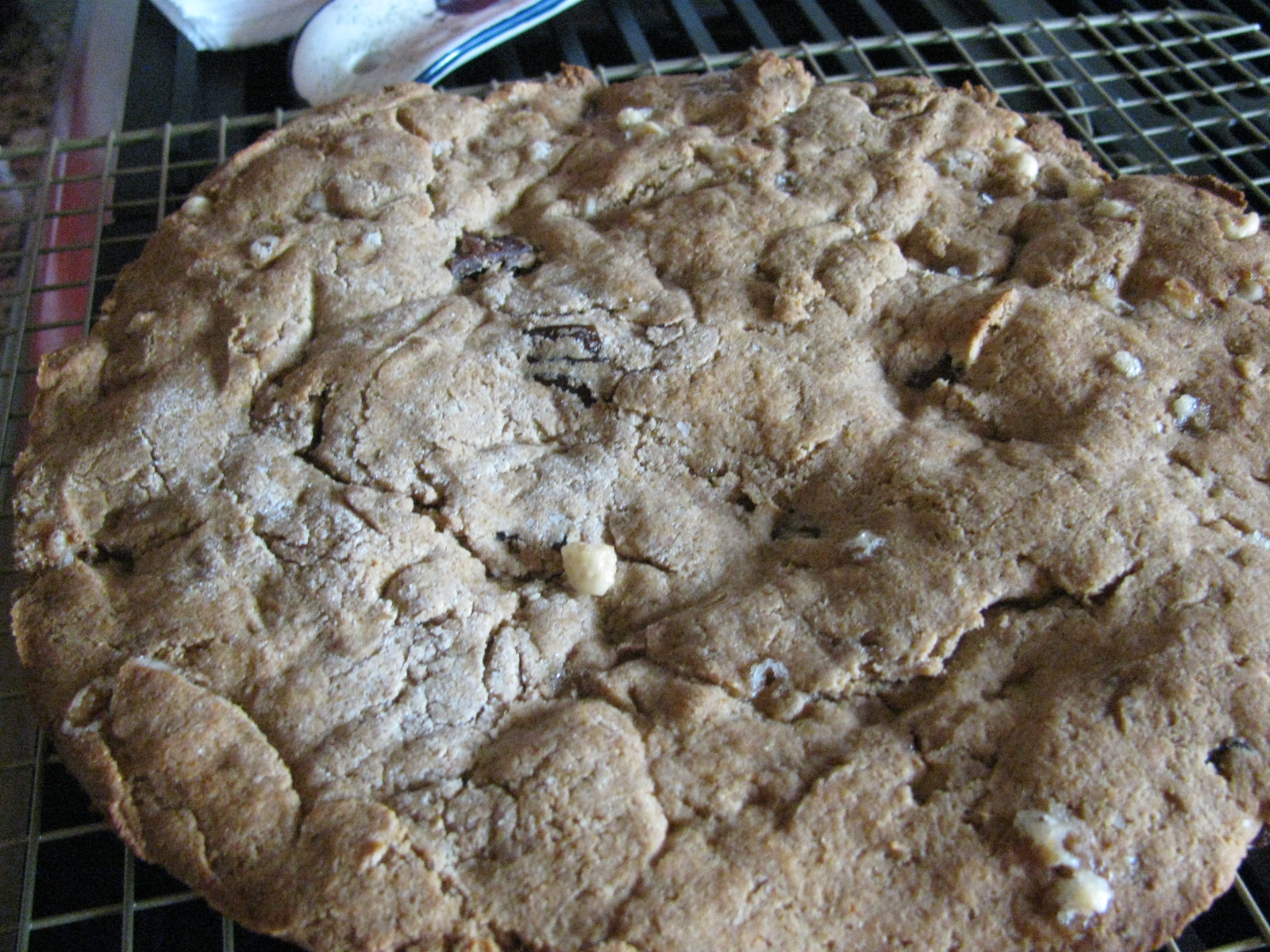 Vegan and gluten-free version of tahinopita (with vegan white chocolate chips).